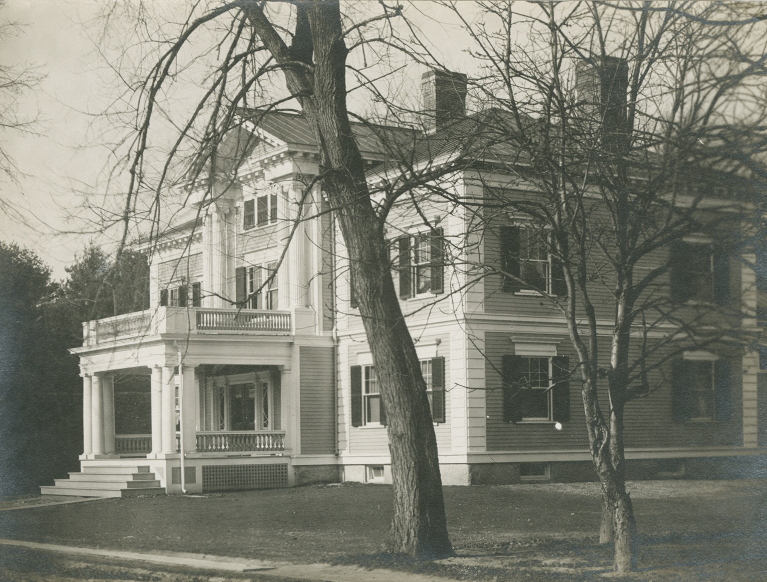 Circa 1920's photo Beta Theta Pi House Dartmouth College Other information Collected from the Rauner Library Vertical File, Beta Theta Pi